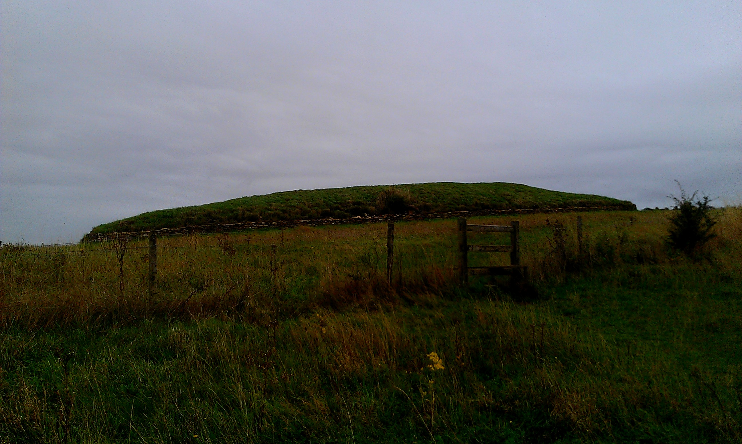 One side of Stoney Littleton Long Barrow in Somerset, as seen from the approach on the public footpath.